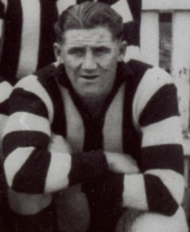 Photograph of Don Balfour in 1944